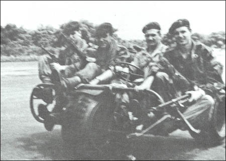 original description: "An AS-21 tricycle moves troops into place around Stanleyville airport"[1]